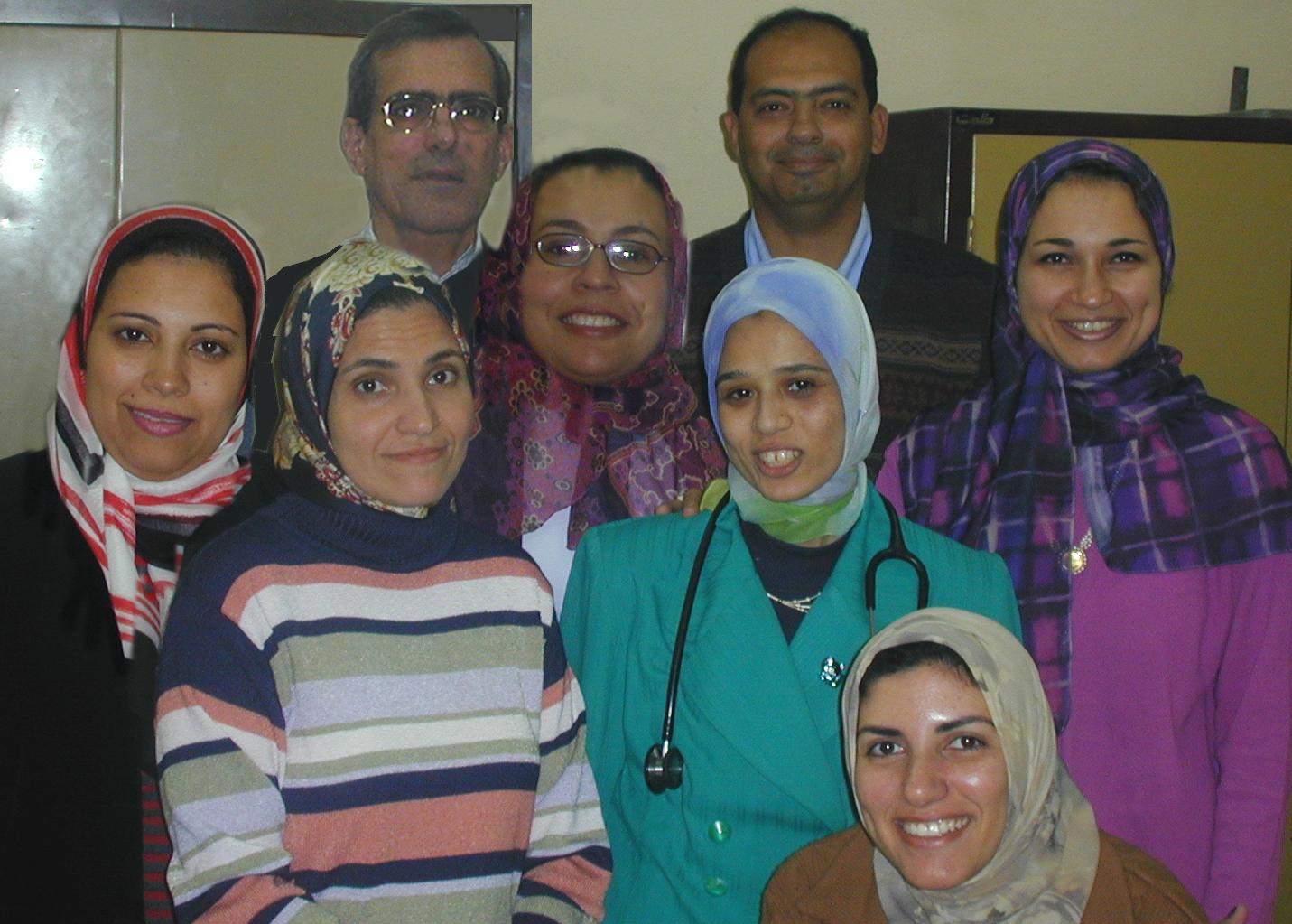 Team of Pediatric Endocrinology Clinic. Pediatric department, Faculty of Medicine, Ain Shams University